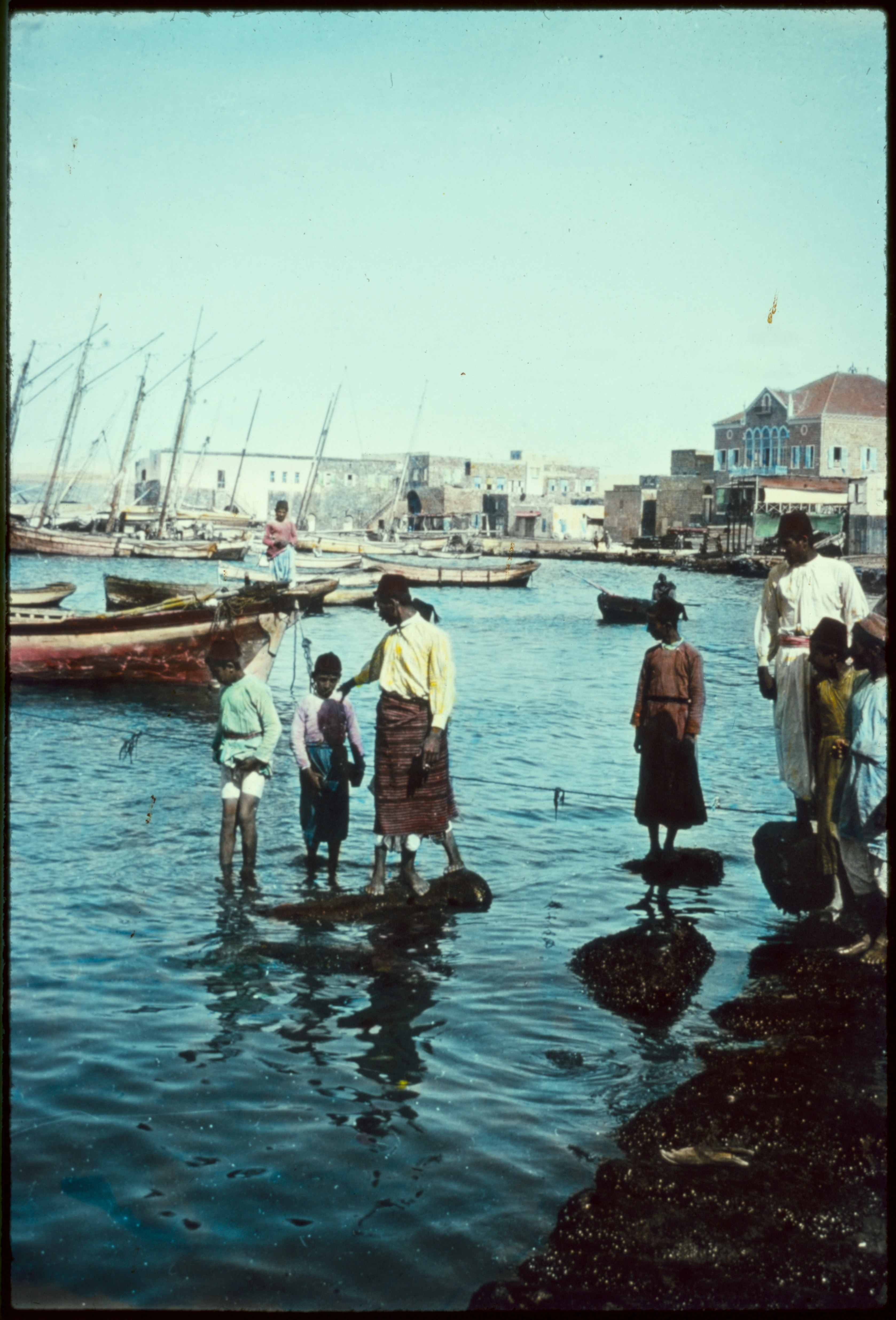 Title: Along the Mediterranean coast, southward. Tyre, harbor. Acts 21:3 Abstract/medium: G. Eric and Edith Matson Photograph Collection Physical description: 1 slide